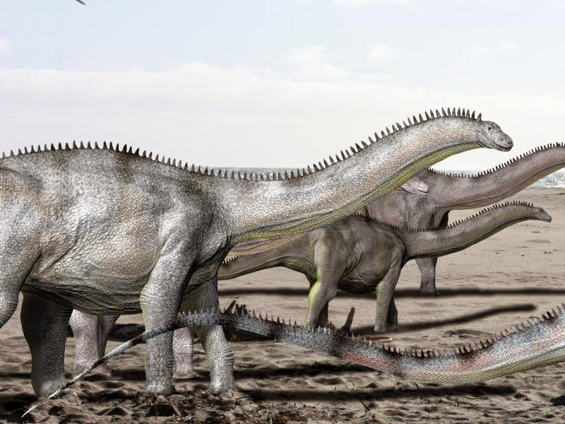 Life reconstruction of Brontosaurus excelsus